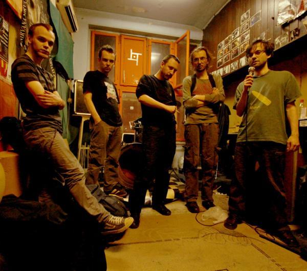 Klopka za pionira at BIGZ rehearsal studios...